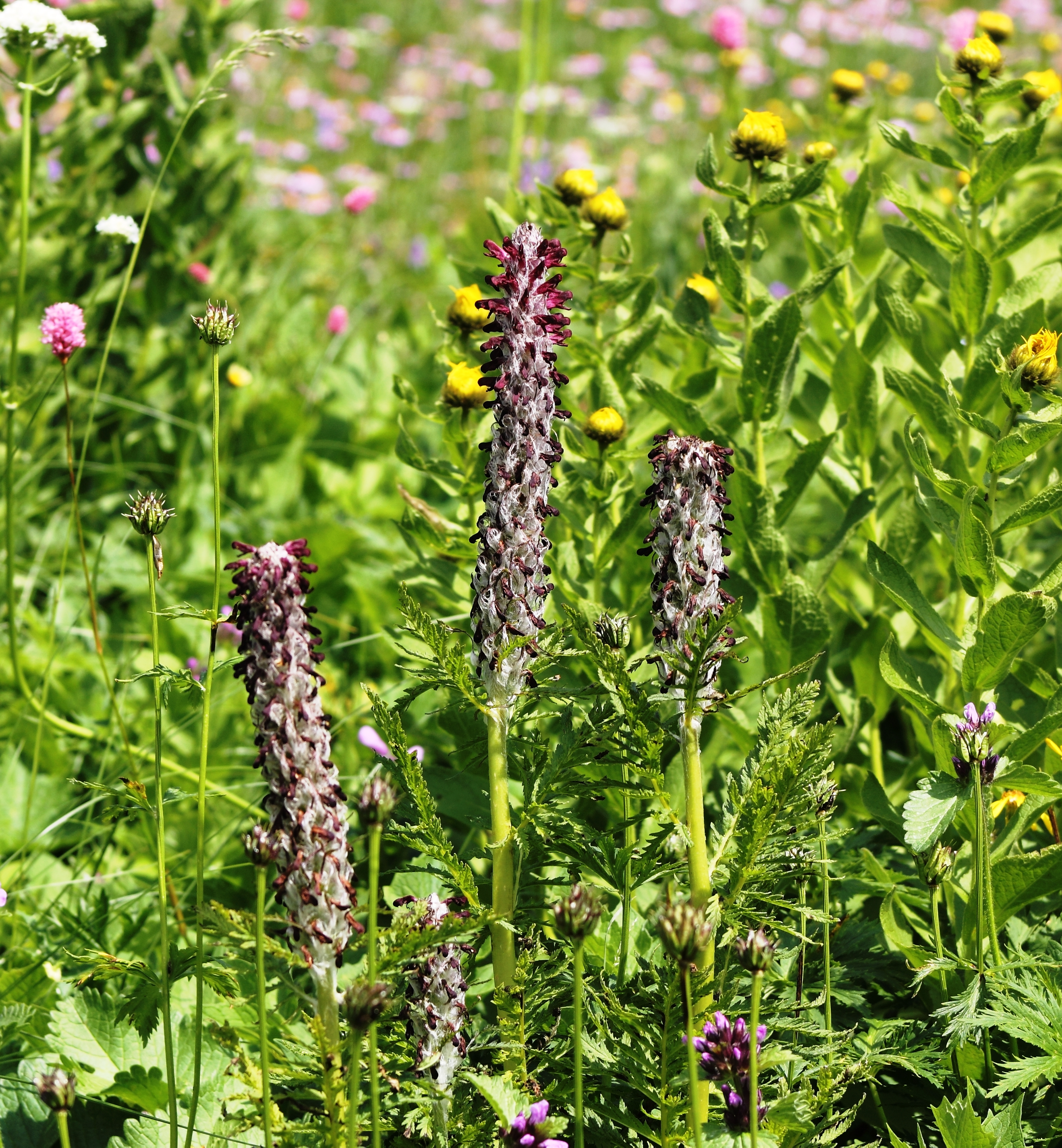 Pedicularis atropurpurea in a native habitat on the Alpine meadows near Krasnaya Polyana, Sochi, Krasnodarski krai, Russian Federation This image is related to the protected area of Russia number 2300430